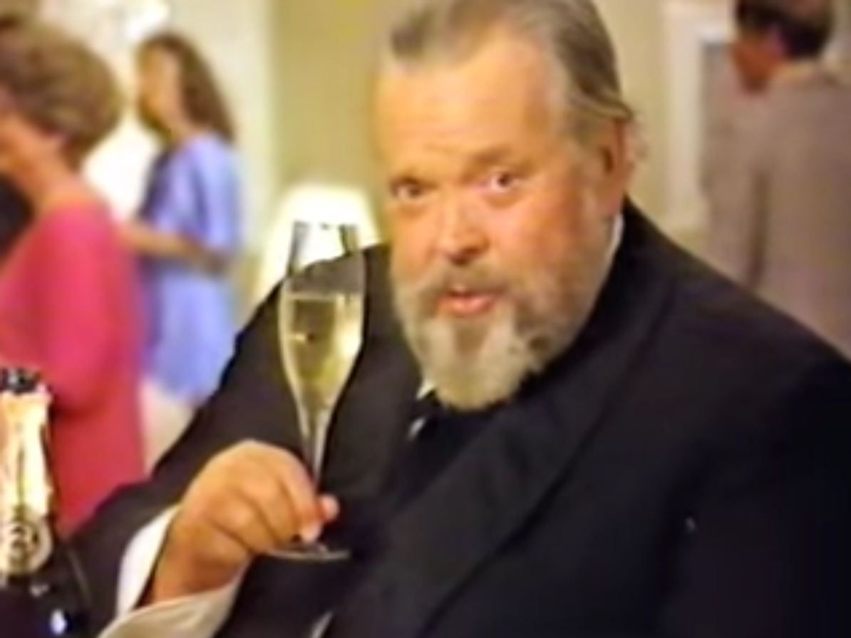 1970s wine advert